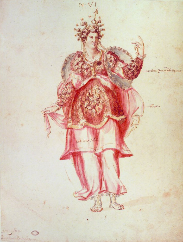 La pellegrina 1589 - Intermedio 5 - Il canto d’Arione - La Sirena della sfera del Marte (Giovanni Lapi)